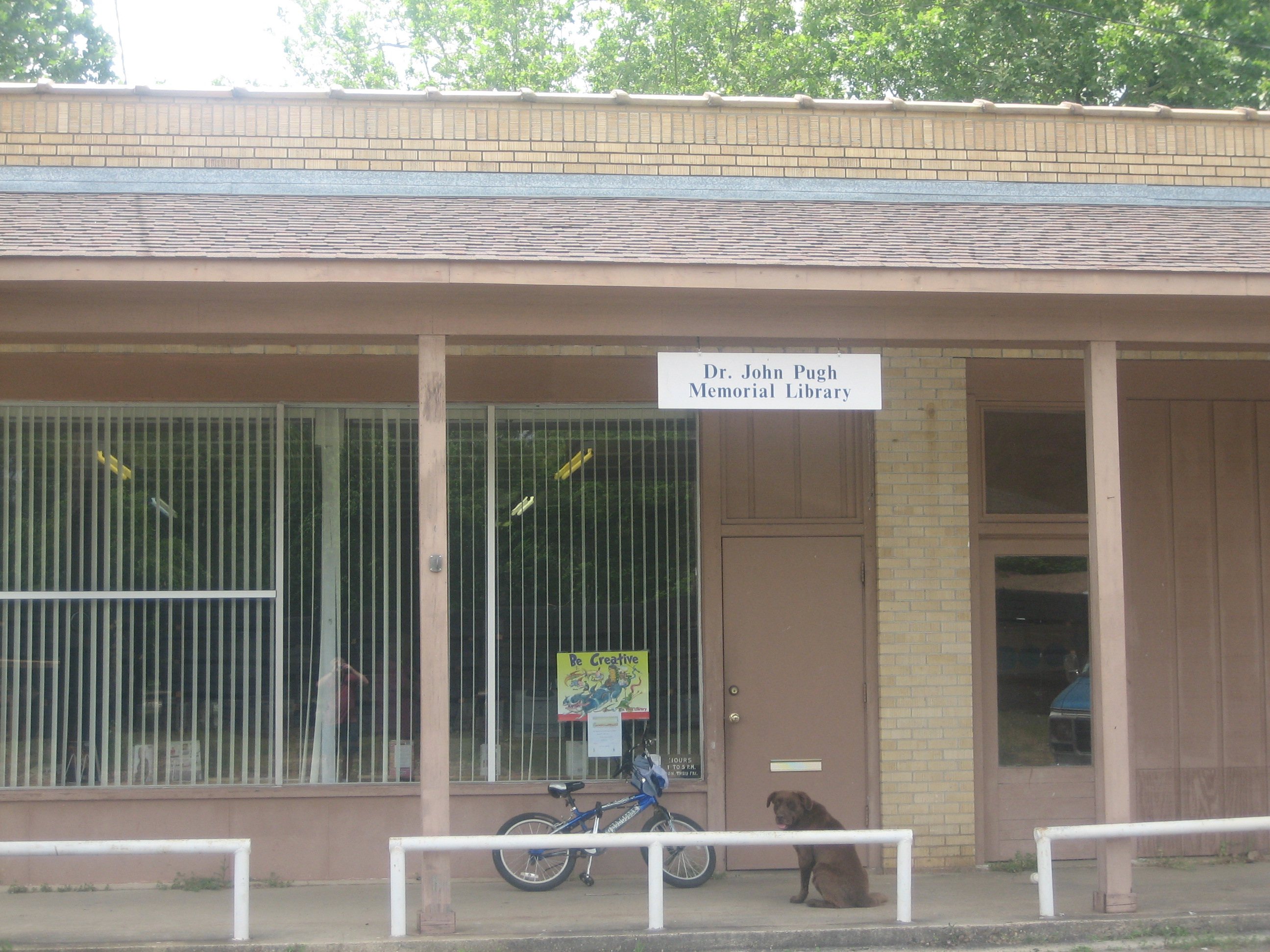 I took photo on May 22, 2009.Billy Hathorn (talk) 19:20, 29 May 2009 (UTC)